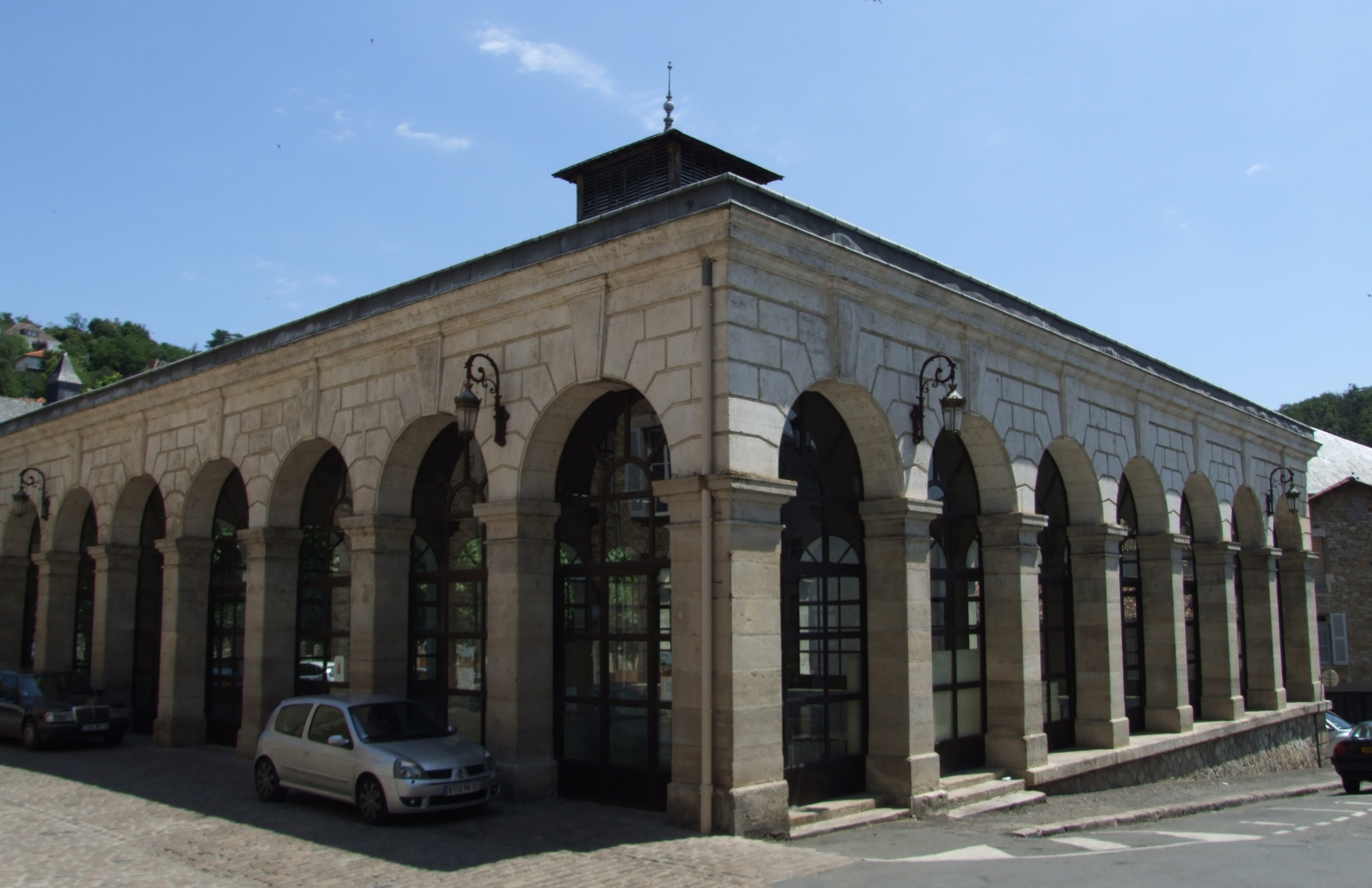 Villefranche-de-Rouergue, Aveyron, FRANCE